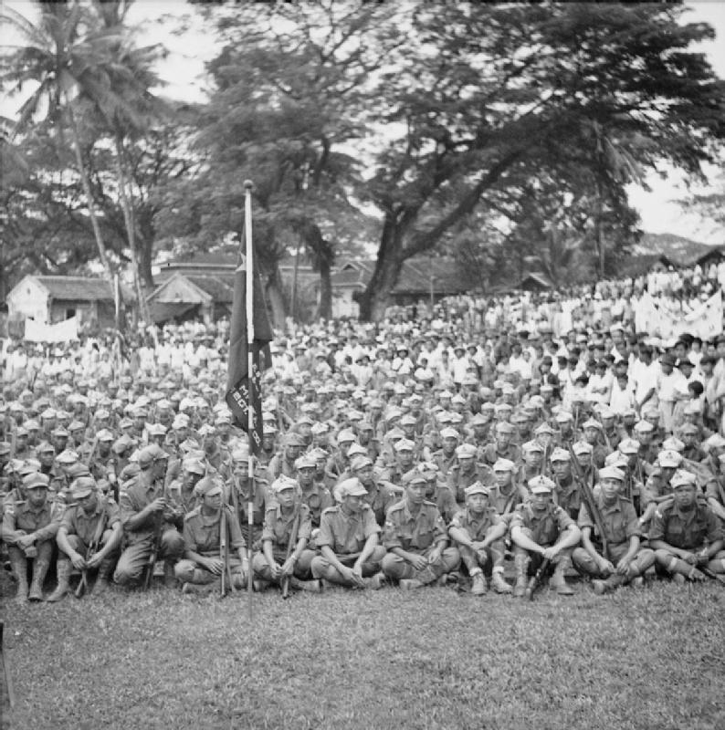 The British Reoccupation of Malaya At Kuala Lumpur men of the Malay Peoples' Anti-Japanese Army wait for the arrival of Lieutenant General Sir Frank Messervy KBE, CB, DSO (General Officer Commander-in-Chief, Malaya Command) at their disbandment ceremony.